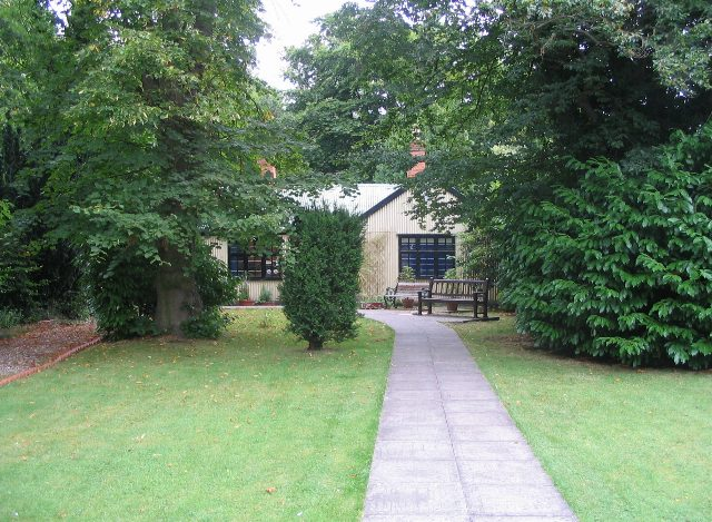 The Cottage Museum, Woodhall Spa. This Boulton and Paul corrugated iron bungalow was built in 1884 and was occupied by the Weild family until the 1960's. Thomas Weild was a bath chair proprietor and transported people from the station to the spa baths to 'take the waters' (the railway ran alongside the left end of the bungalow). The bungalow now contains a local information centre and various local history displays.